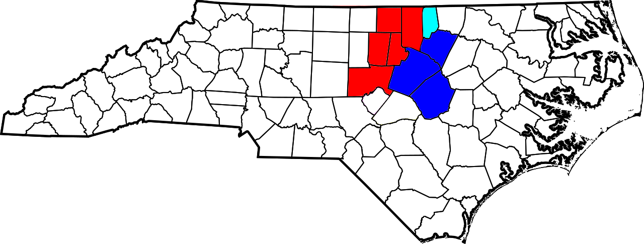 Map depicting the nine North Carolina counties that make up the Raleigh-Durham-Cary Combined Statistical Area, as defined by the U.S. Office of and Management and Budget in September 2018. Modified from File:Raleigh-Durham-ChapelHill-CSA.svg